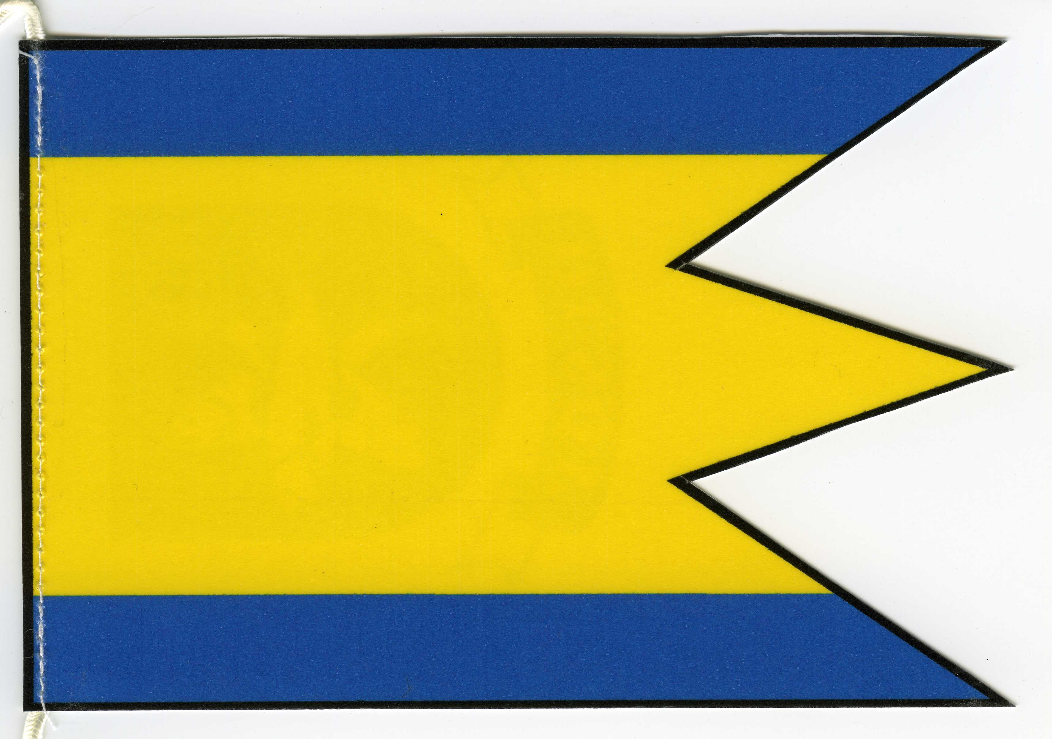 Flag of Oľšov